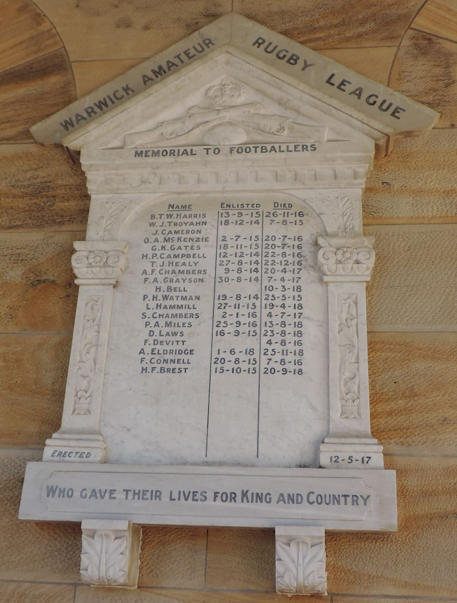 Footballers memorial, Warwick Town Hall, Palmerin Street, Warwick, 2015